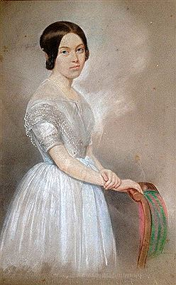 Pastel portrait of a young woman by French artist Angélique Mezzara